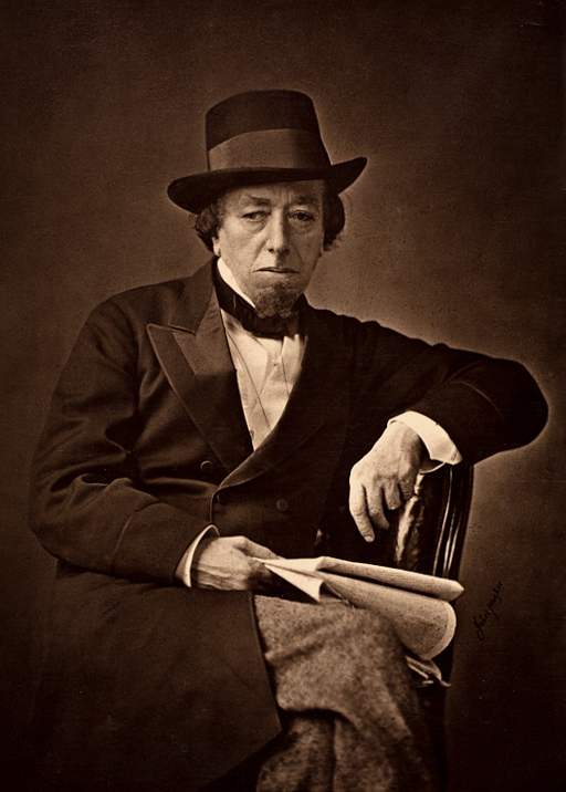 Earl of Beaconsfield, K.G. Photographed at Osborne by Command of H.M. The Queen, July 22, 1878 [Benjamin Disraeli (1804–1881)], 1878, Glossy collodion print on card